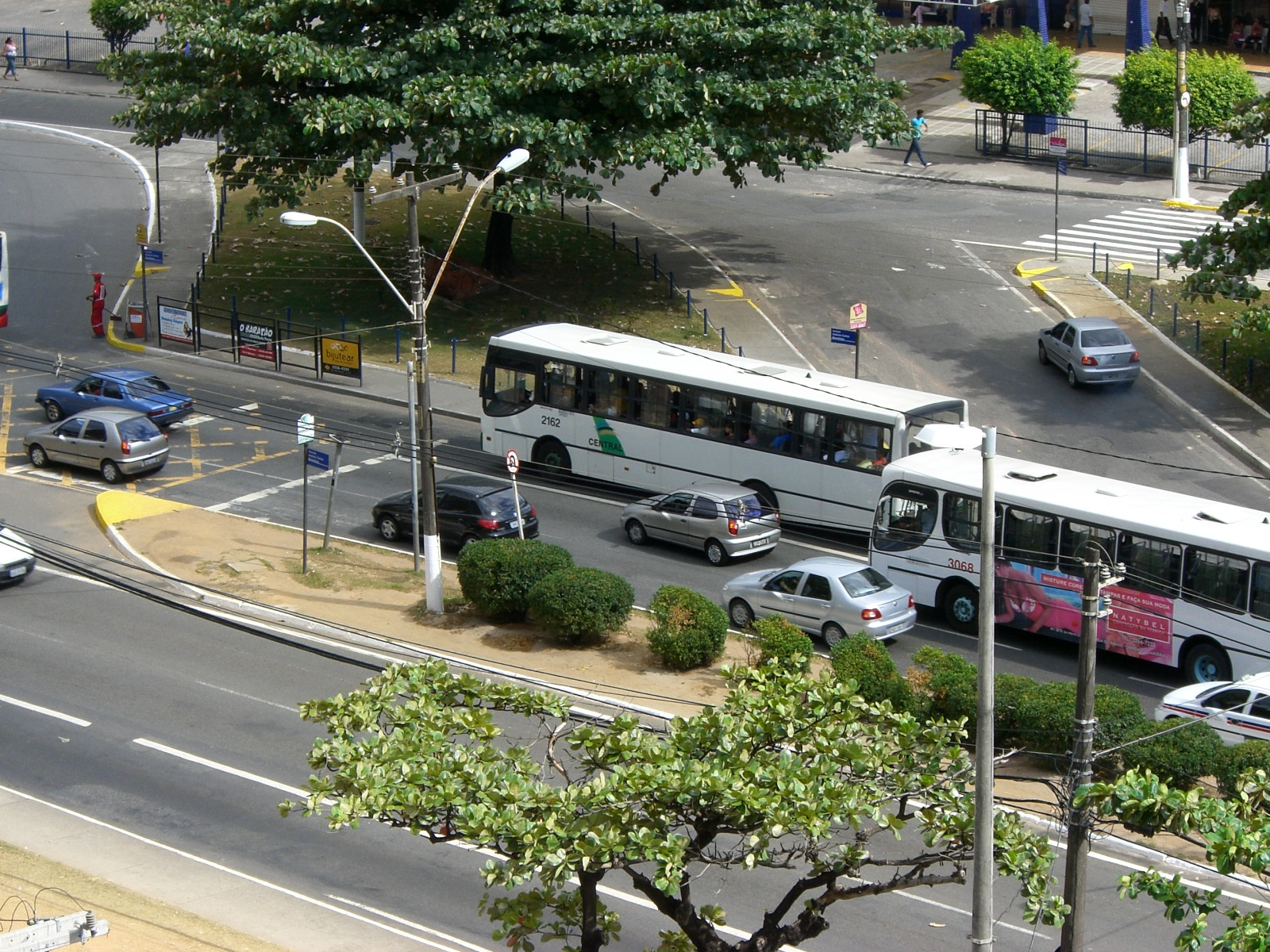 The Traffic at the ACM avenue, Salvador, Bahia, Brazil, out of the Rush Hour.